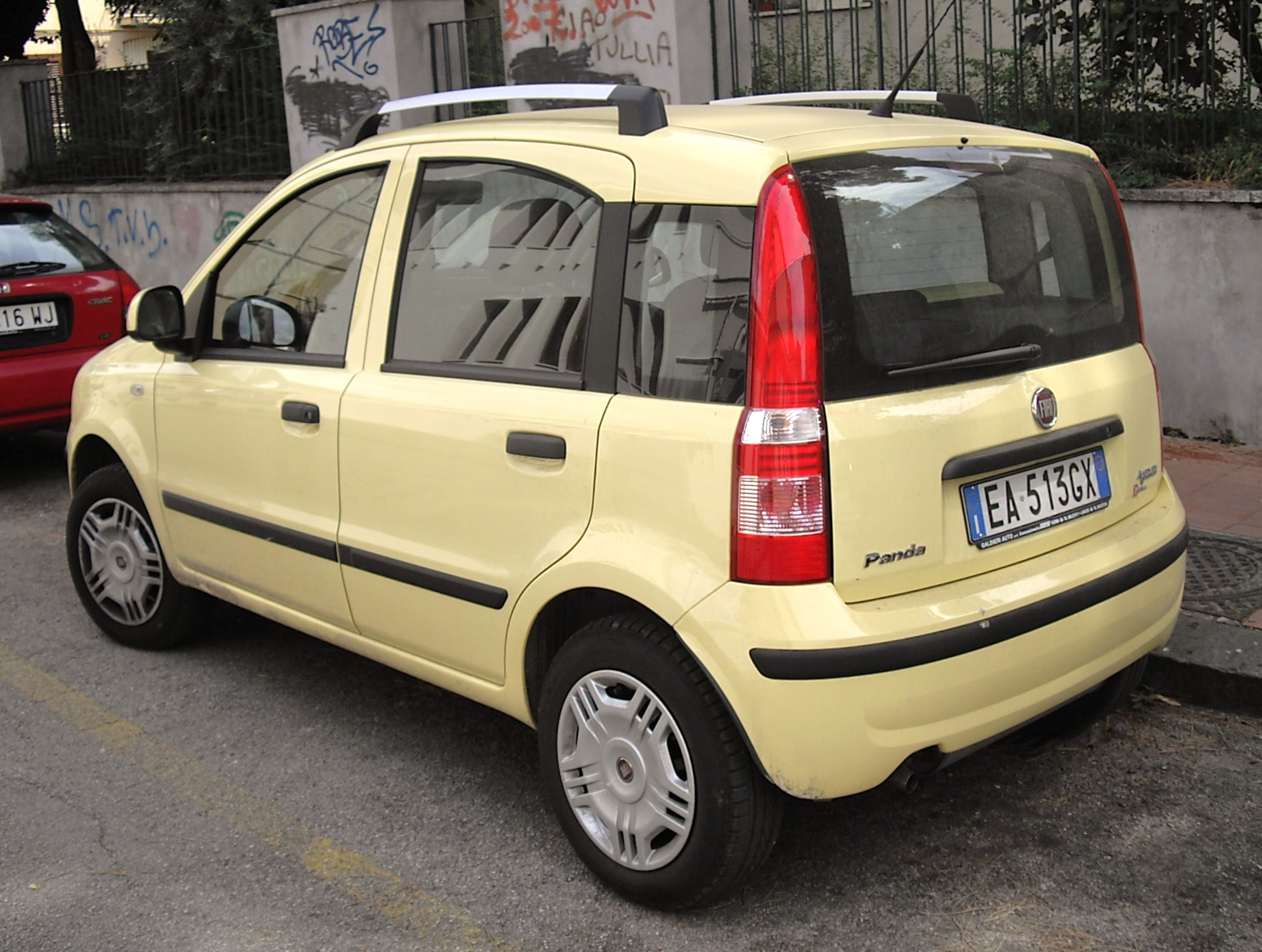 Fiat Panda Panda Natural Power.